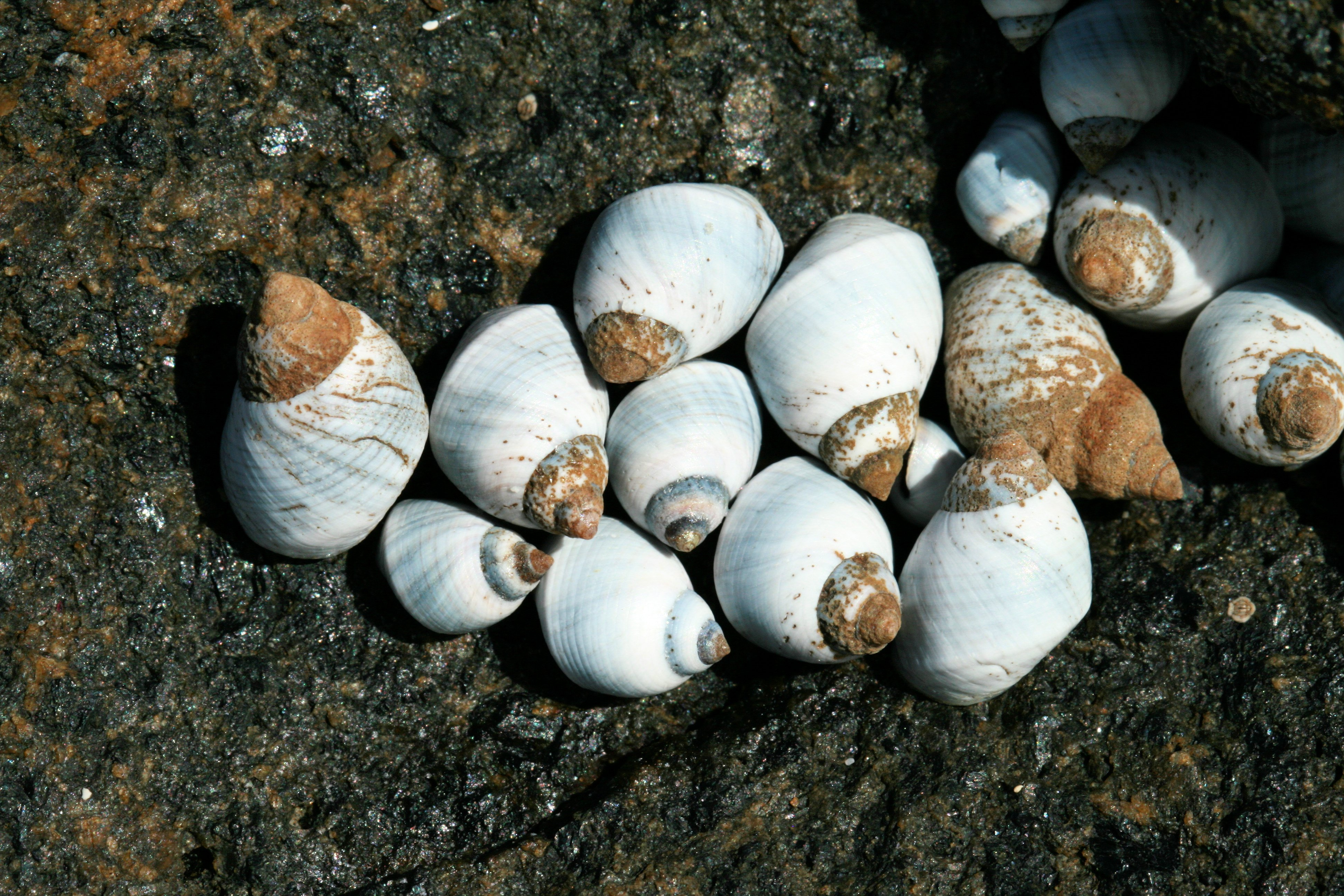 Austrolittorina unifasciata on the rocks at Bawley Beach, New South Wales, Australia.